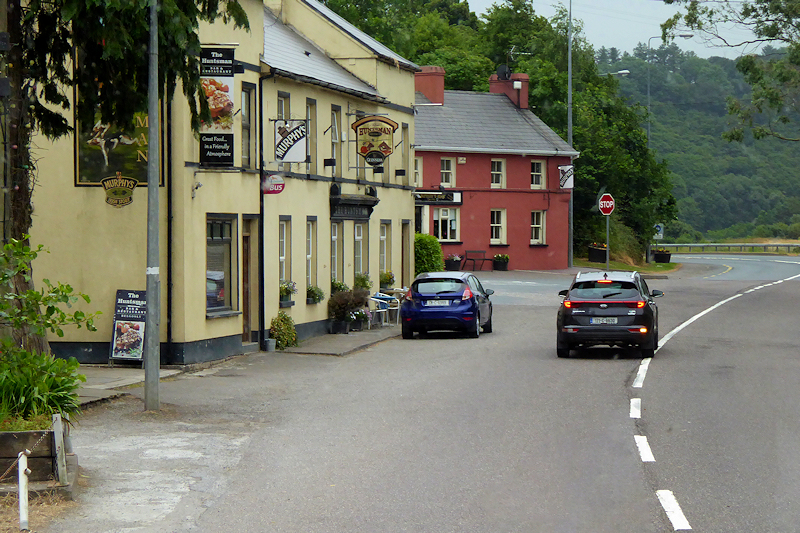 Belgooly Main Street, The Huntsman Bar and Restaurant